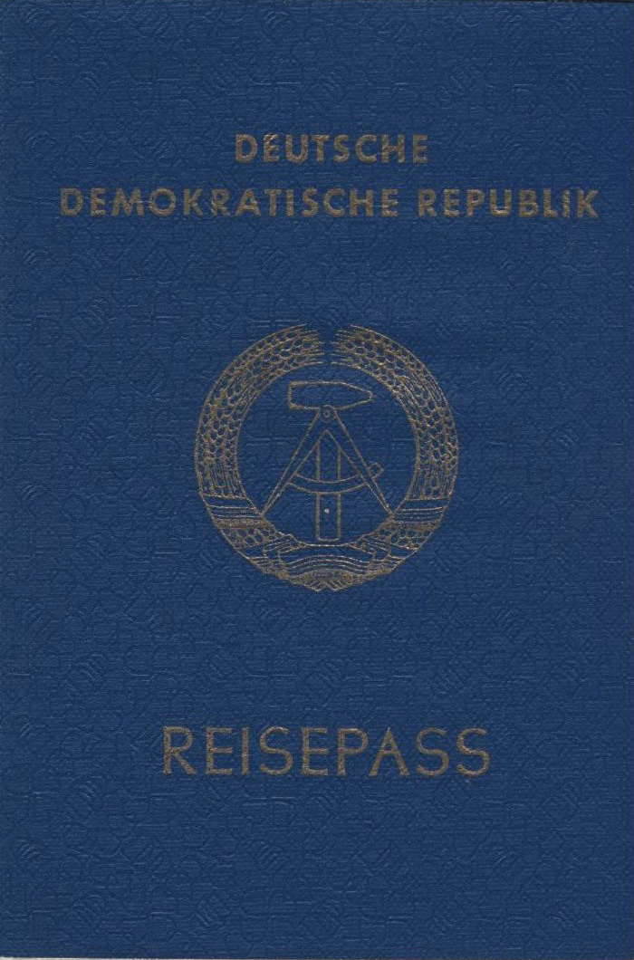 == DDR Reisepass / Passport of German Democratic Republic -1990